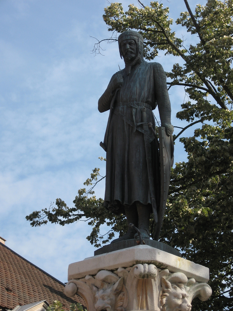 See where this picture was taken. ?